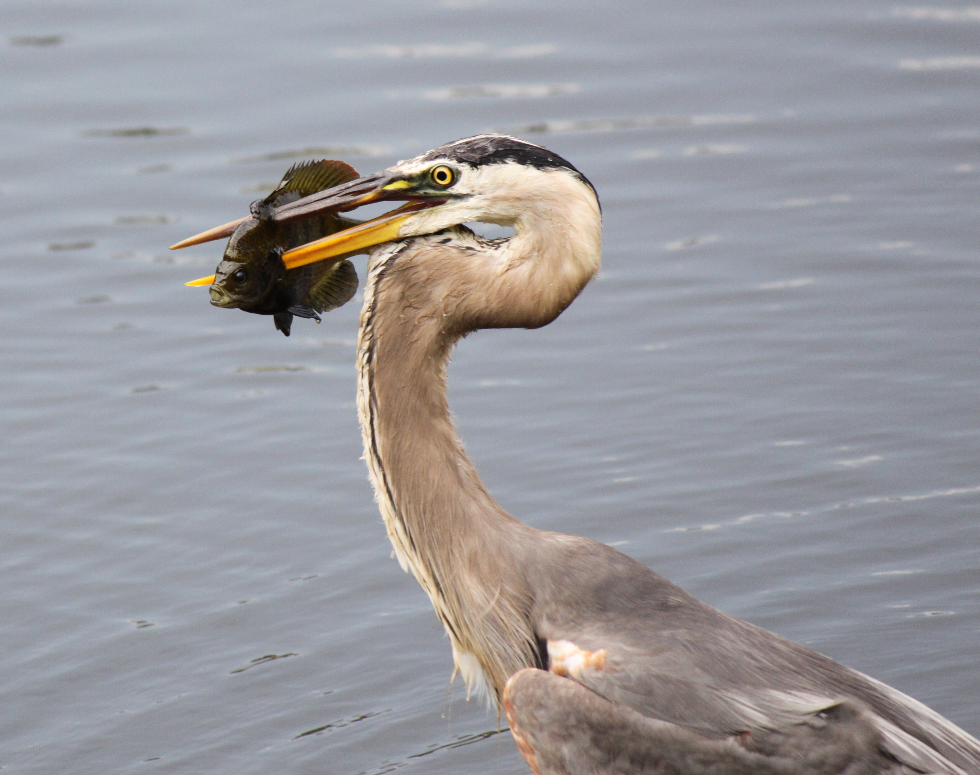 Great blue heron in Tampa, FL catching fish with beak.